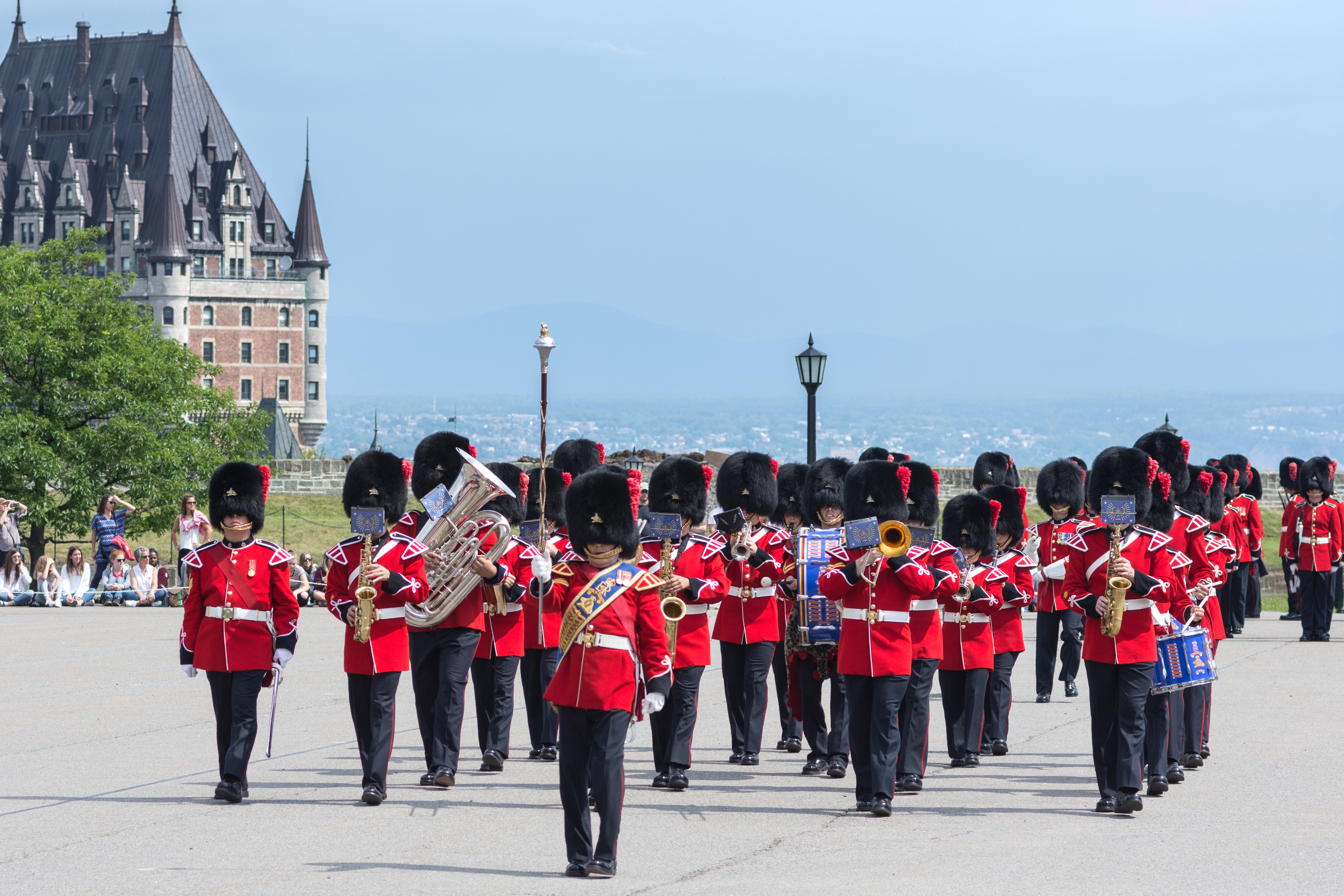 Changing the Guard ceremony during the summer of 2018 at the Citadelle of Quebec by members of the Royal 22e Régiment